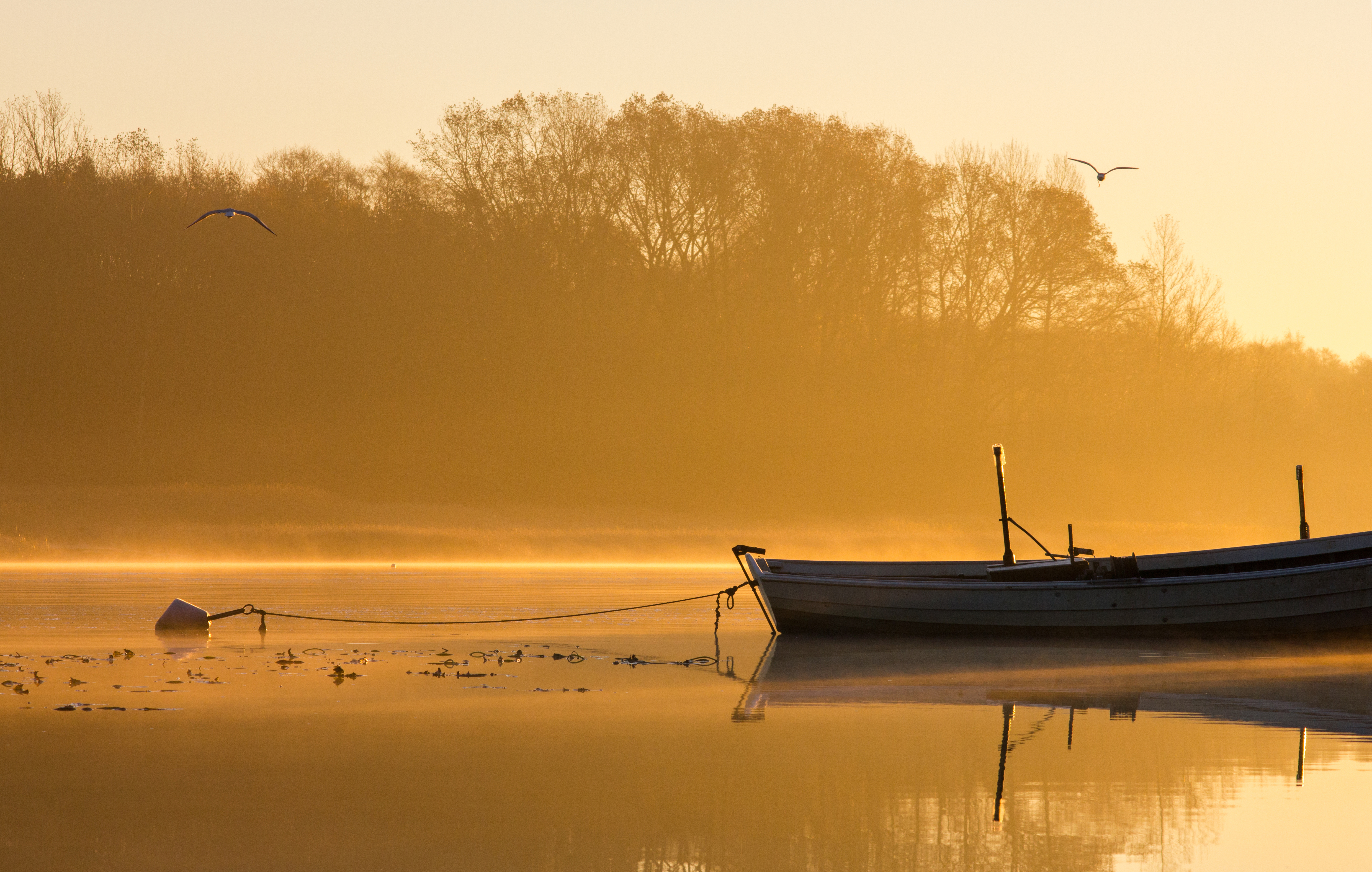 Sunrise in Pärnu river, Estonia.